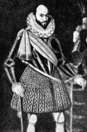 15th-century painting of a Spanish nobleman, supposedly Pedro de Peralta y Ezpeleta (1421–1492). This image is apparently reproduced from a newspaper clipping (Diario de Navarra, 16 March 1947), where it was captioned Mosen Pierres de Peralta ante el vicario de Cristo.. The original painting is unidentified. The identification of its subject is unconfirmed, and may be mistaken. Compare this El Mundo article of 26 May 2007 which shows the 17th marquis of Falces with a different portrait of the same period, of a nobleman in a similar pose, identified as un retrato del antepasado al que los Reyes Católicos obsequiaron con la espada del Cid [i.e. Pedro de Peralta y Ezpeleta].